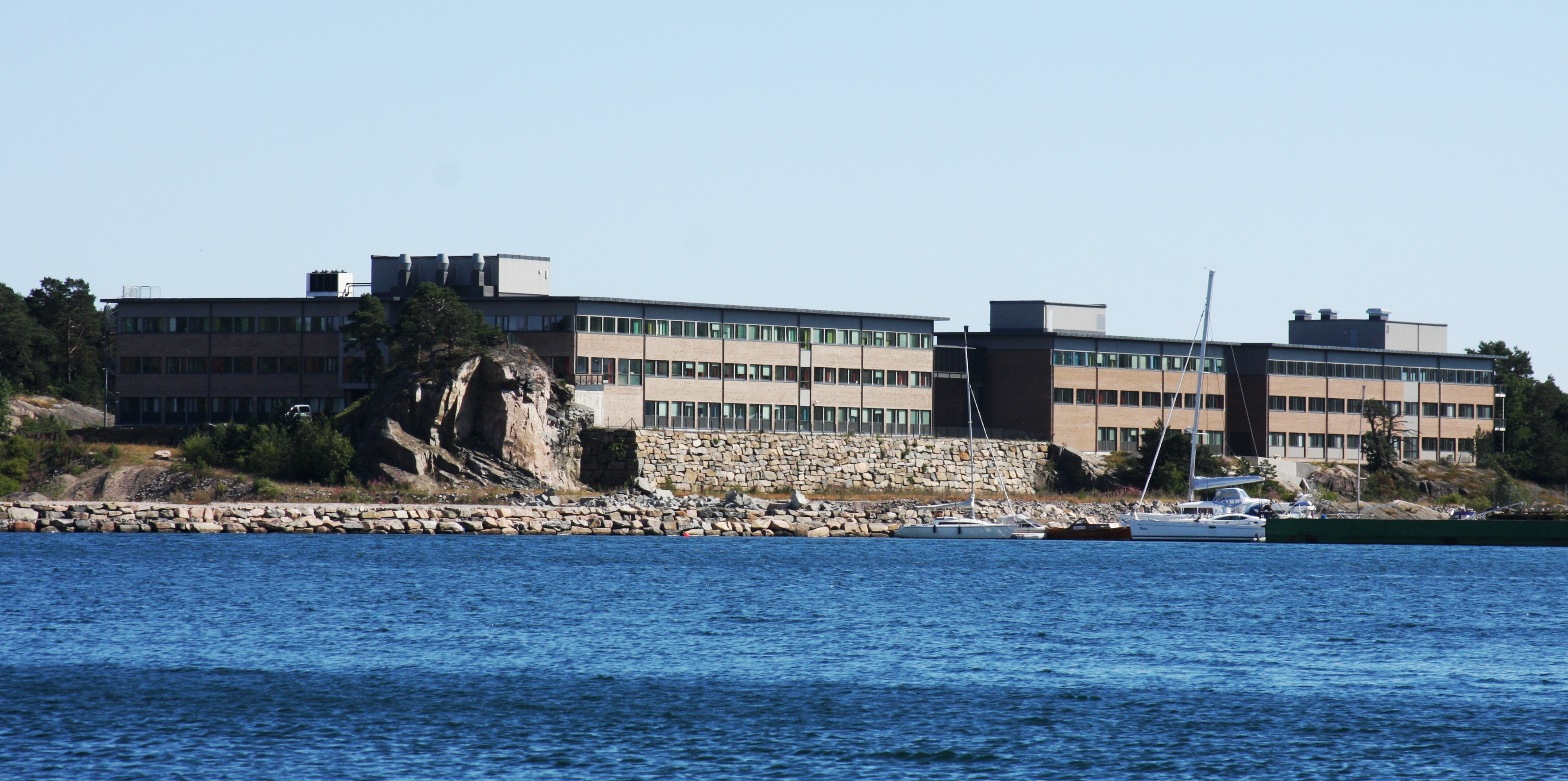 Andøya industrial site in Vågsbygd, city of Kristiansand (south Norway). This site has shipbuilding and repair, cranes production, etc.